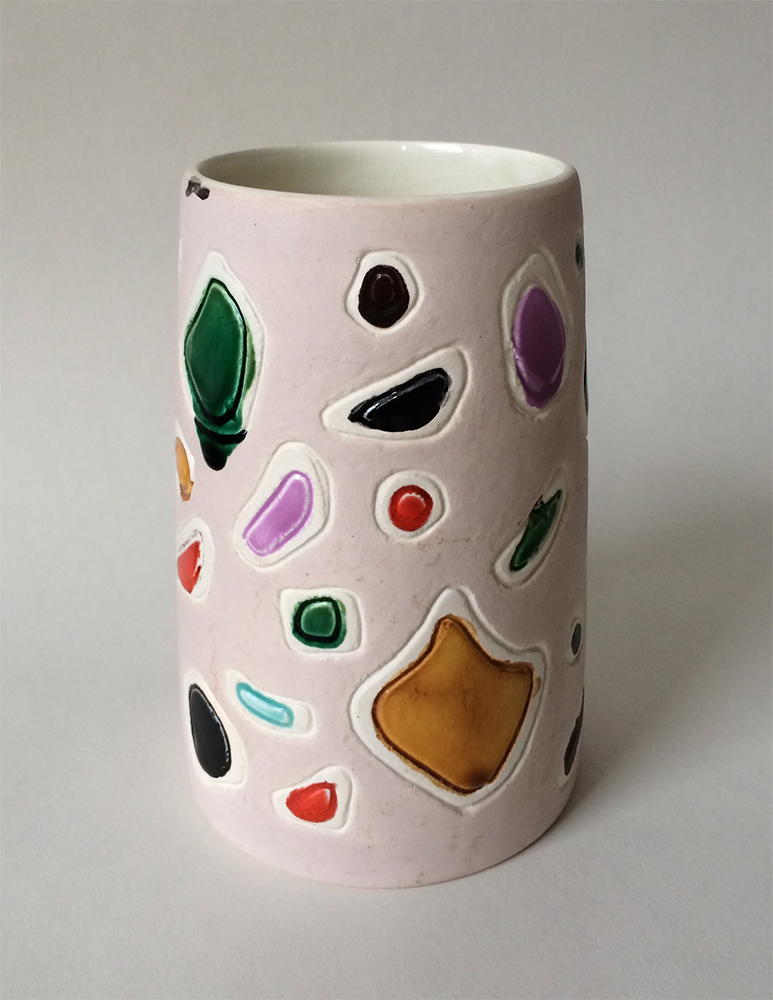 Faience vase of the soviet sculptor Bronislav Bystrushkin (1926-1977). Lomonosov's Porcelain Factory, Leningrad, USSR.